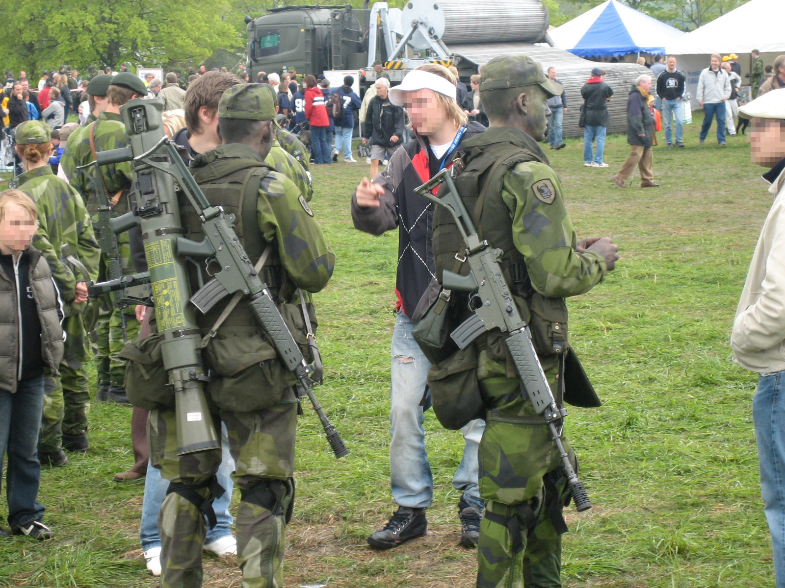 Ak 5 (standard) seen here. The whole image this time.